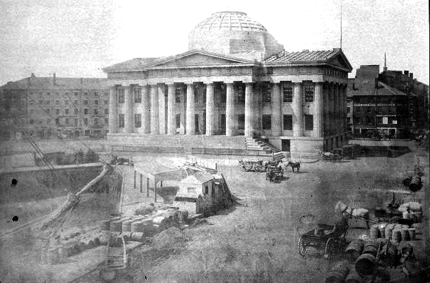 Custom House and Hingham Packet (Boston). 1850. Unidentified artist, American, 19th century. Photograph, albumen print from a paper negative. Museum of Fine Arts, Boston